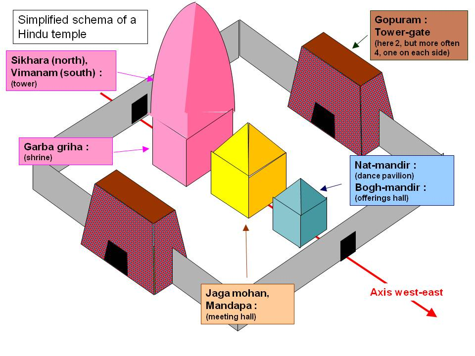 Simplified schema of a Hindu temple.